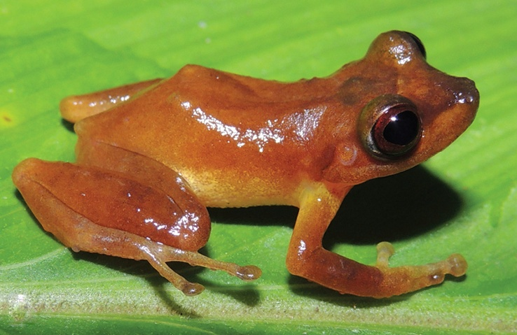 Cropped and edited by Pristimantis pluvialis paratypes.jpg